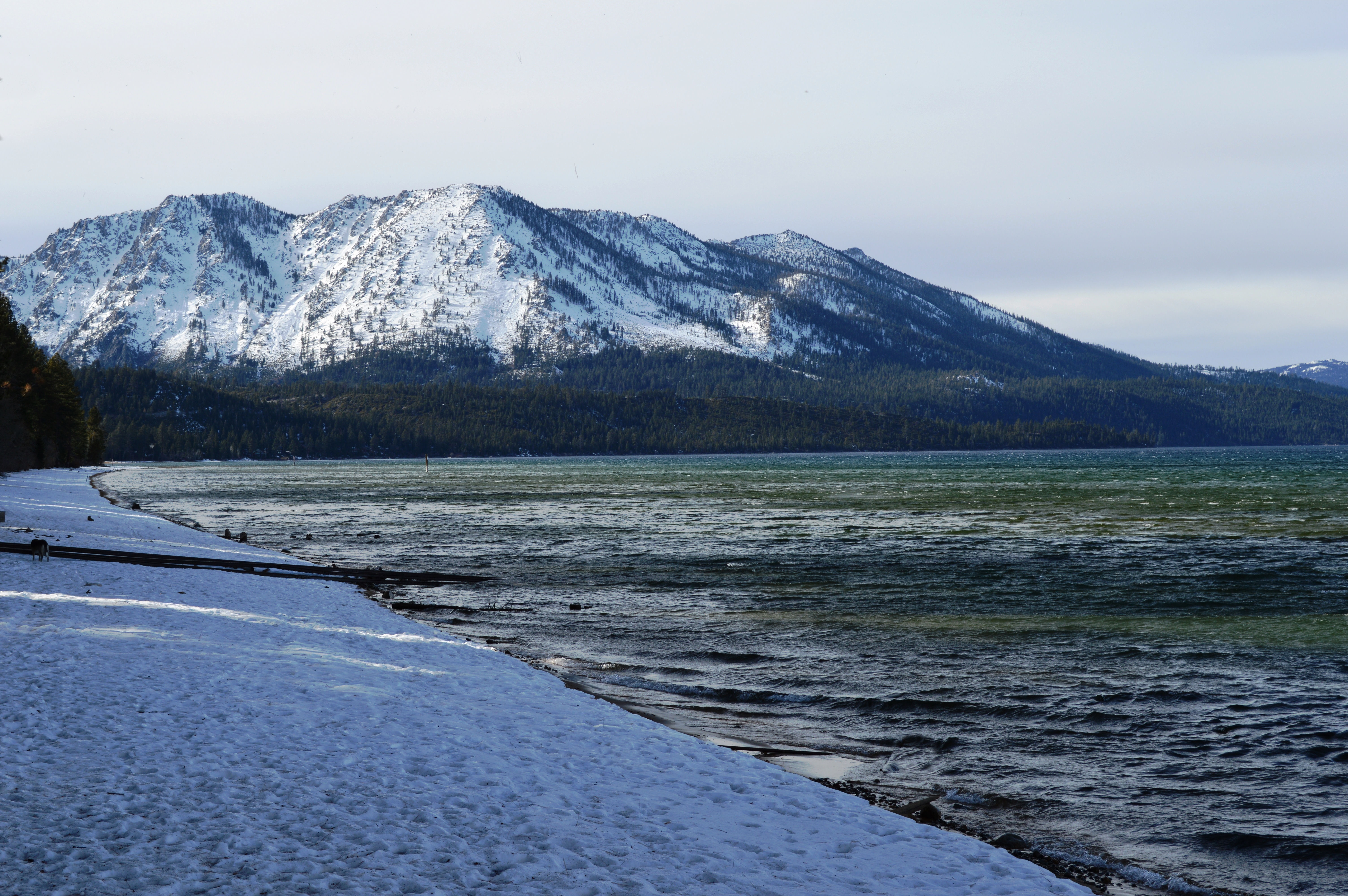 A winter afternoon on the shore at Camp Richardson Marina